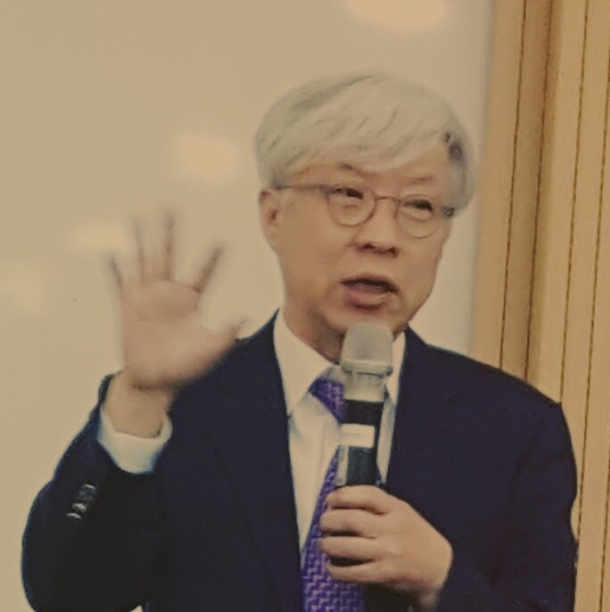 TakSeokSan is speaking at Sejong National Library. He is a philosopher in South Korea.